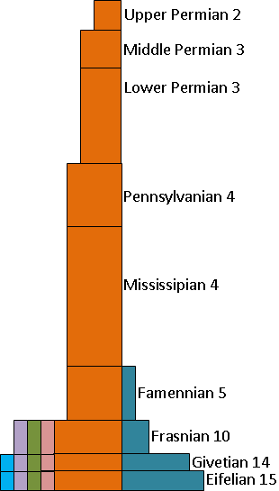 Graph showing the number of trilobite families from the start of the Middle Devonian to the total extinction at the close of the Upper Permian. Numbers behind the periodes give these numbers. Heights correspond to duration of the Epochs/Ages. Colors code for trilobite orders: Proetida - brown, Phacopida - steelblue, Lichida - clearblue, Harpetida, Odontopleurida and Corynexochida - pink, olive and purple. Based on: Feist, R. (1991). The Late Devonian Trilobite crisis. Historical Biology 5: 197-214, and Feist, R. (2002). Trilobites from the latest Frasnian Kellwasser Crisis in North Africa (Mrirt, central Moroccan Meseta). Acta Palaeontologica Polonica 47 (2): 203–210